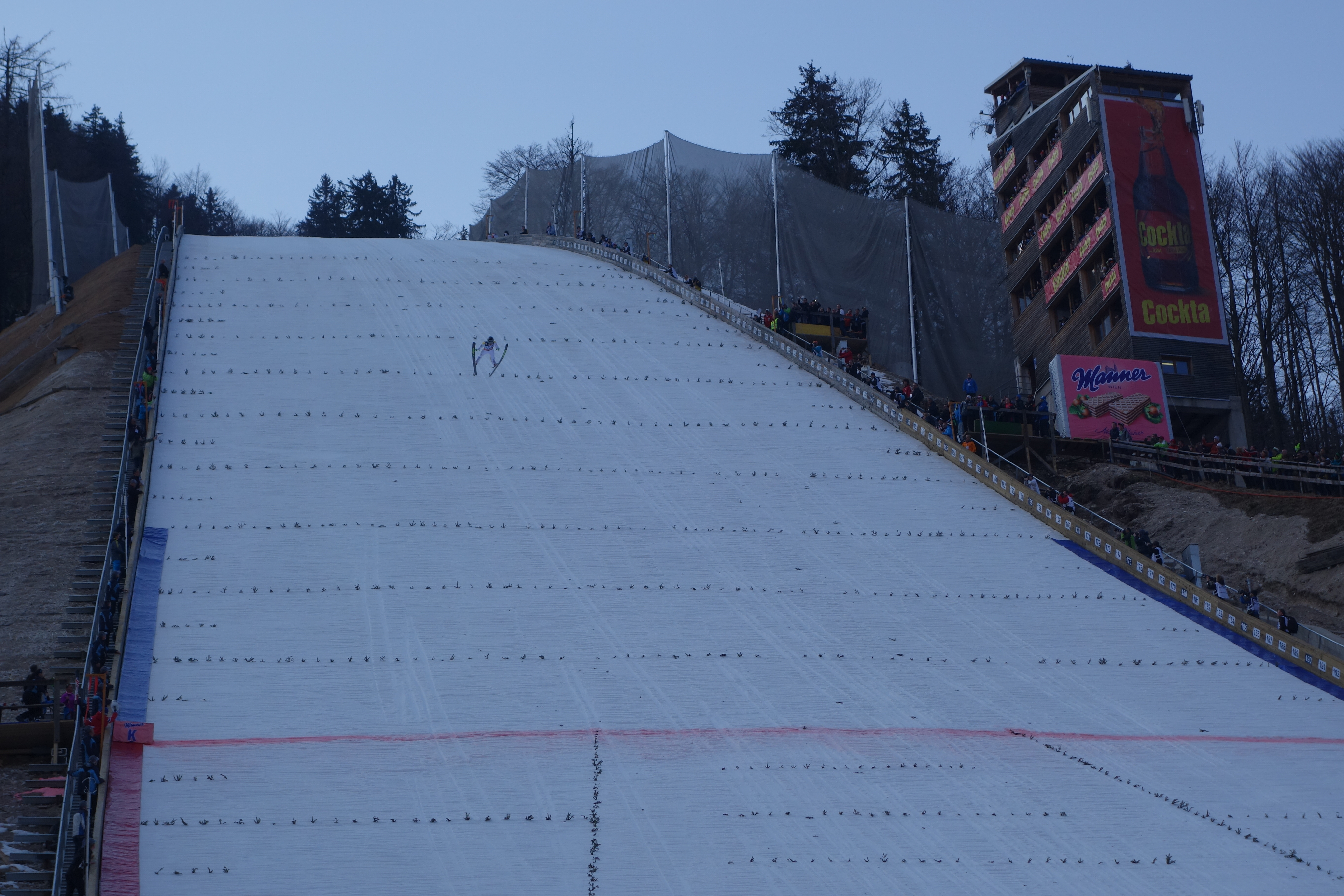 Planica ski jumping World Cup.